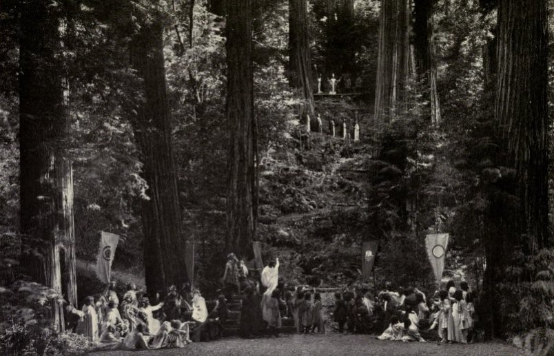 This is a screenshot of an photograph which appeared in the book The Grove Plays of the Bohemian Club published in 1918. Work is out of copyright. The photo shows a scene from the Grove Play entitled St. Patrick at Tara, and was taken in daylight during a dress rehearsal.